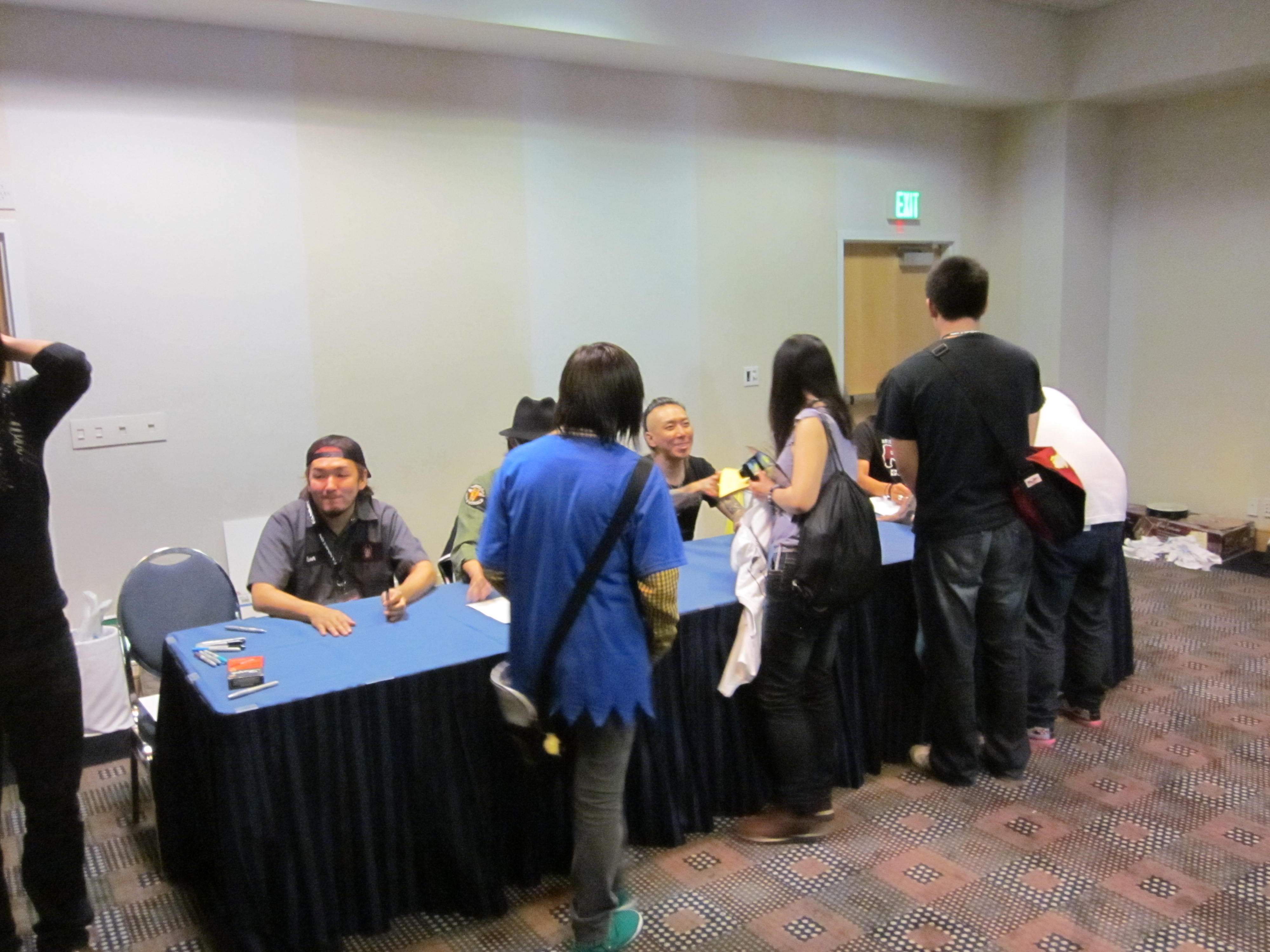 FLOW at a signing at FanimeCon 2010 in San Jose, California.